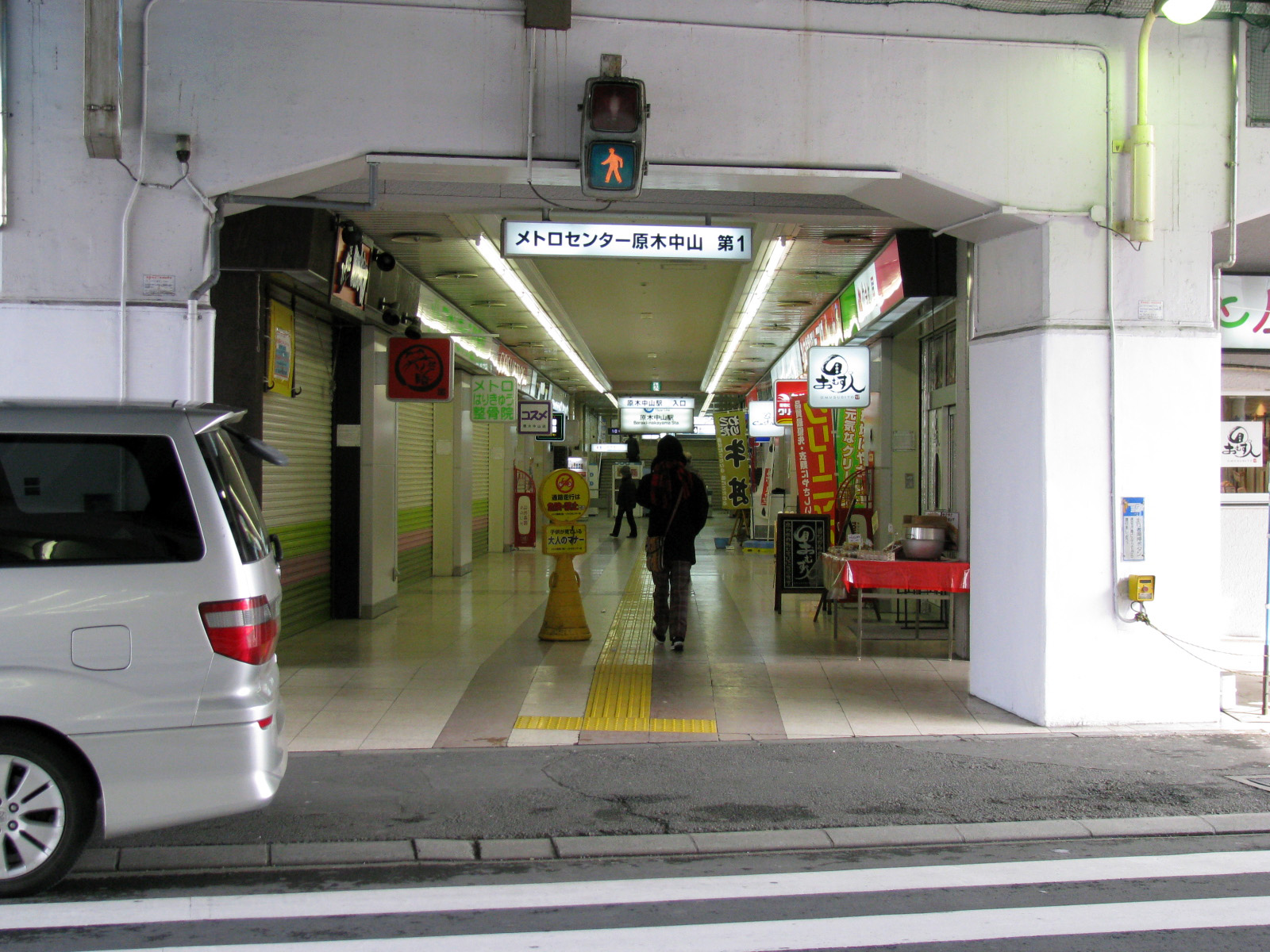 Entrance of Baraki-Nakayama Station on Tokyo Metro Tozai-Line